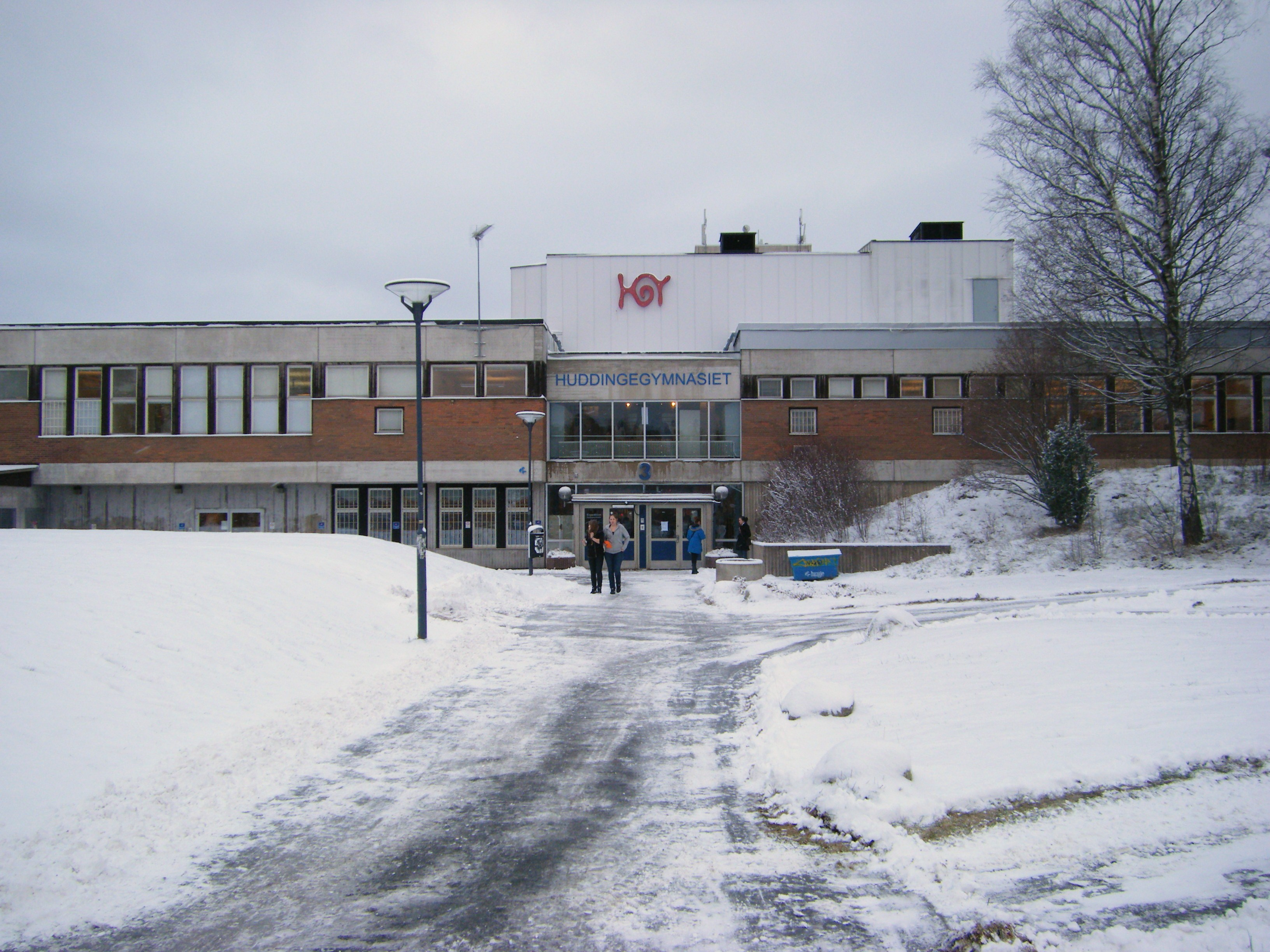 The Highschool Huddingegymnasiet, Sweden